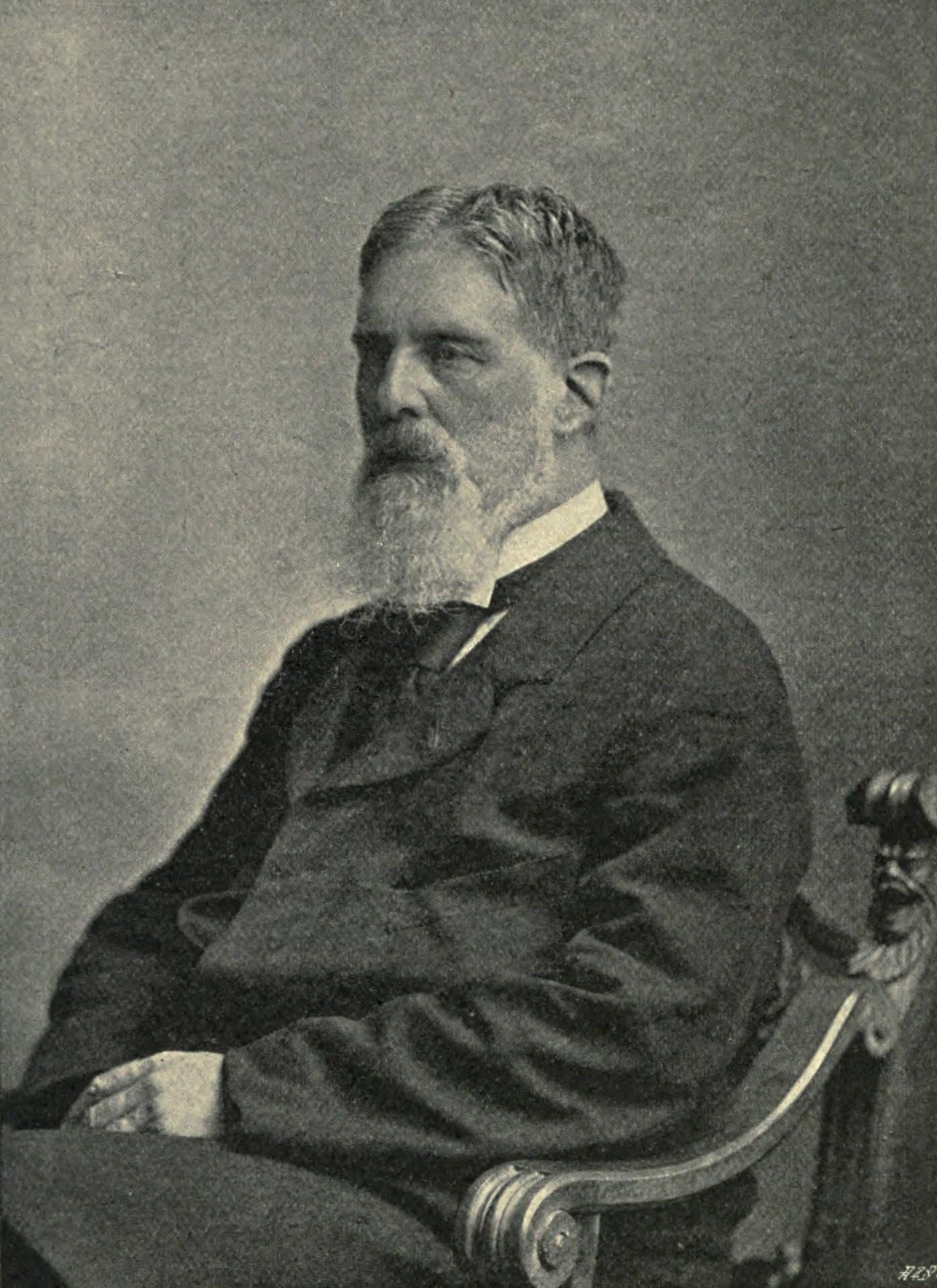 Portrait of Francis Turner Palgrave (1824-1897)